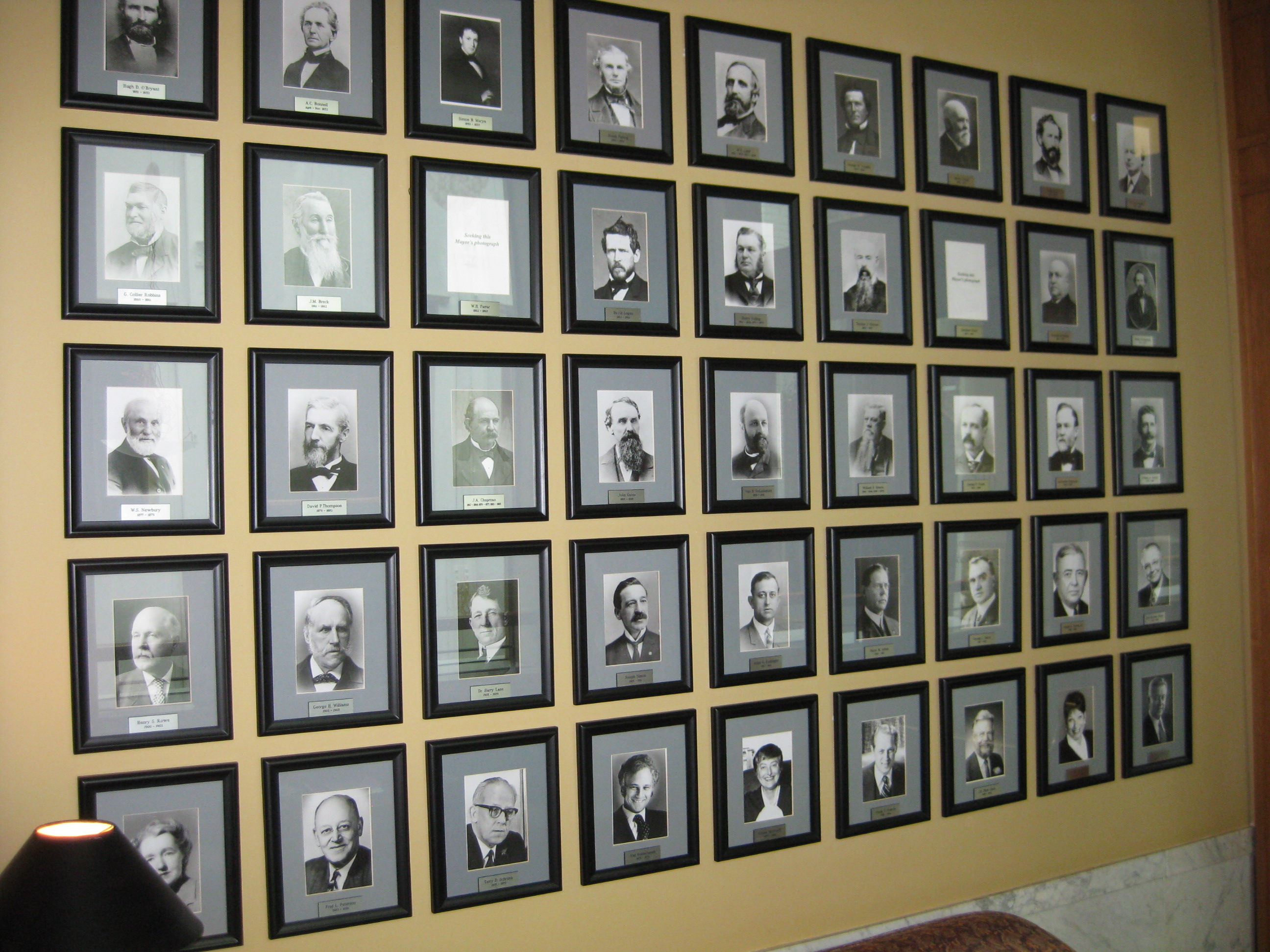 Photograph of Portland Mayors' Portrait Gallery. Located in the Portland Mayor's office, in City Hall. All but two of Portland's Mayor's are shown (as of June 2010). Picture created with the permission of the Mayor's office.